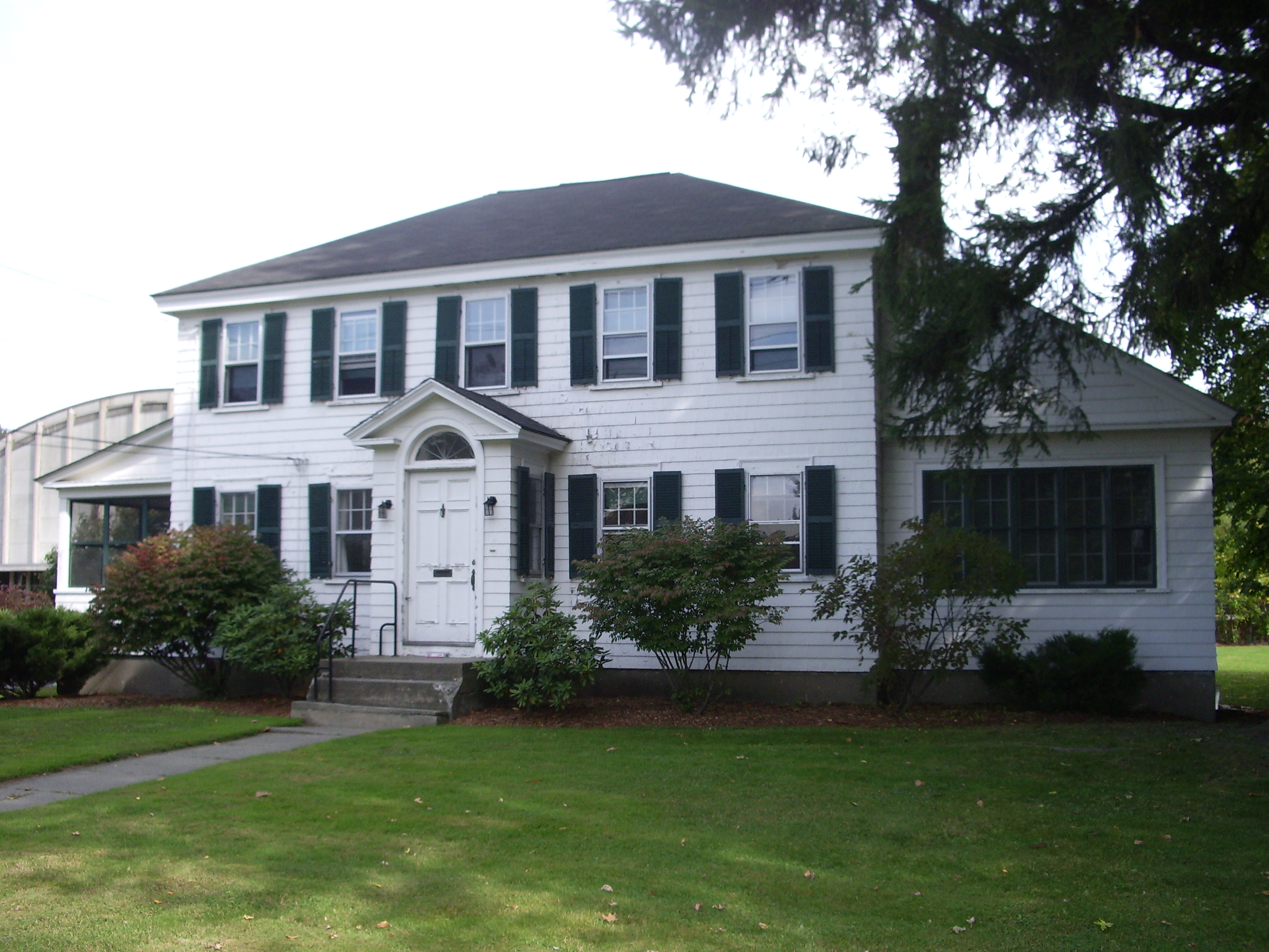 Photograph of Fire and Skoal House at the campus of Dartmouth College in Hanover, New Hampshire.